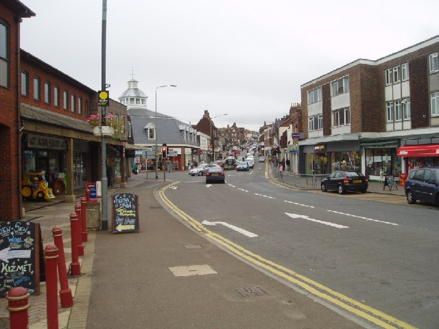 Uckfield High Street, looking north up the High Street from near the river.